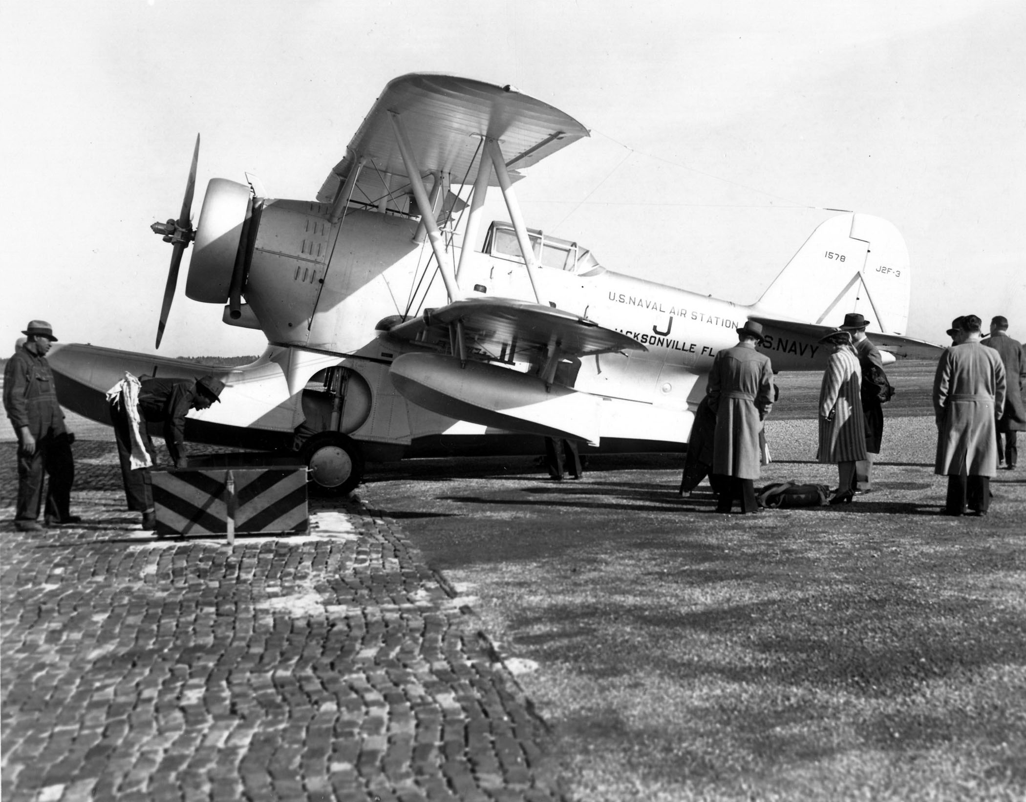 The first aircraft assigned to Naval Air Station Jacksonville, Florida (USA), was this Grumman J2F-3 Duck (BuNo 1578), which arrived on 16 January 1940. This aircraft would remain as the Commanding Officer's plane.